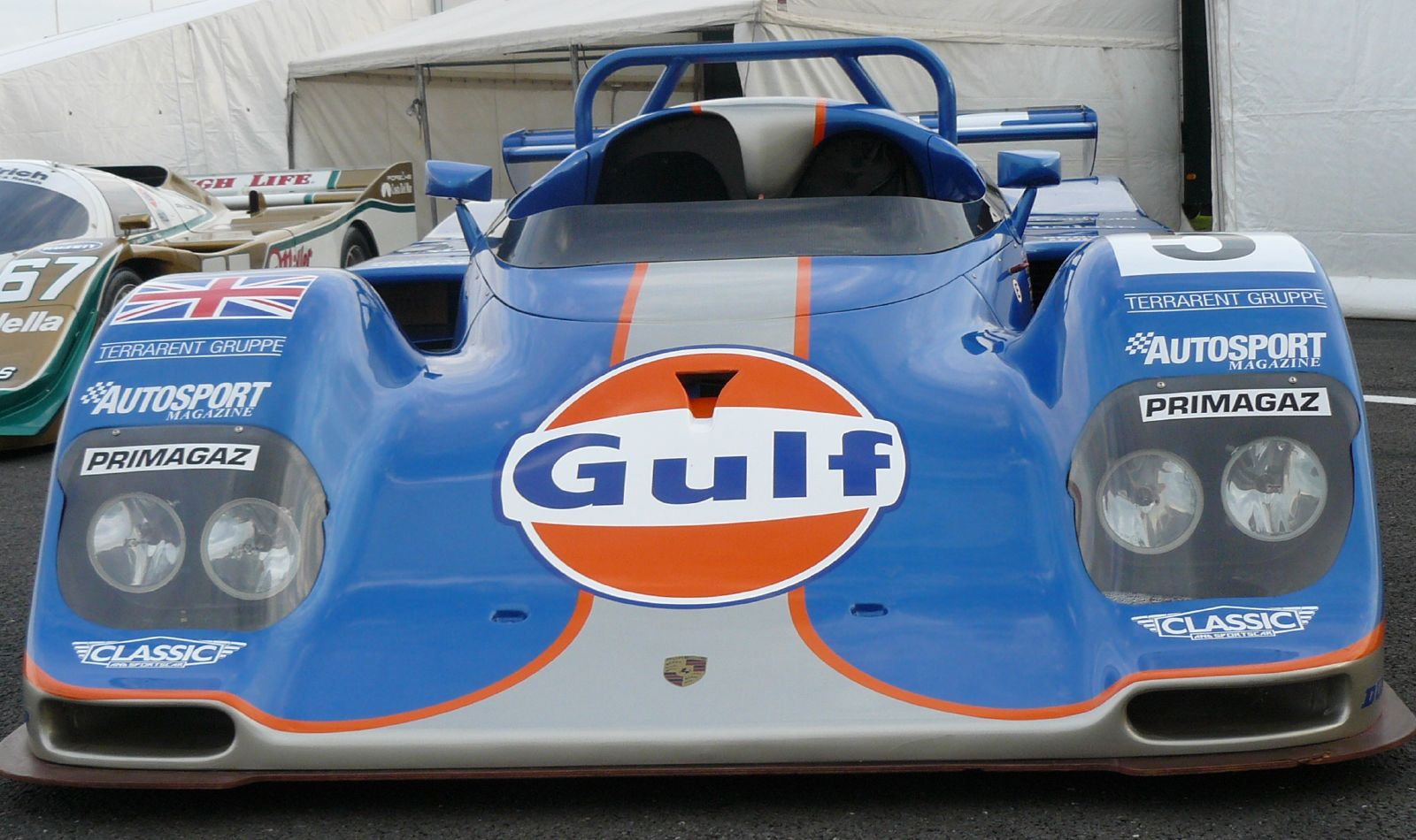 A Kremer K8 Spyder at the Silverstone Classic